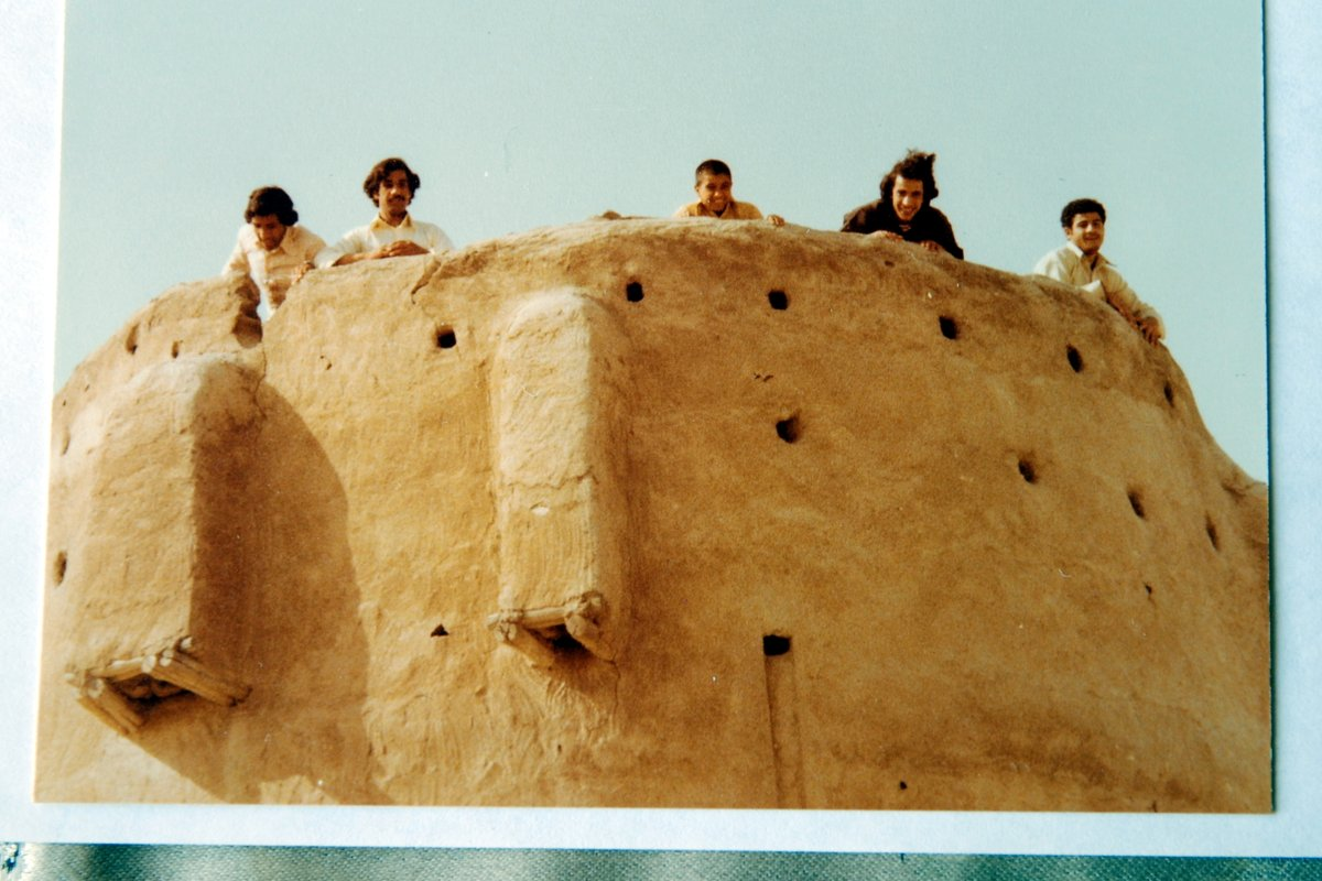 The Al Tawiyah tower along the Dammam-Jubail road in 1978. Post Ottoman-era.